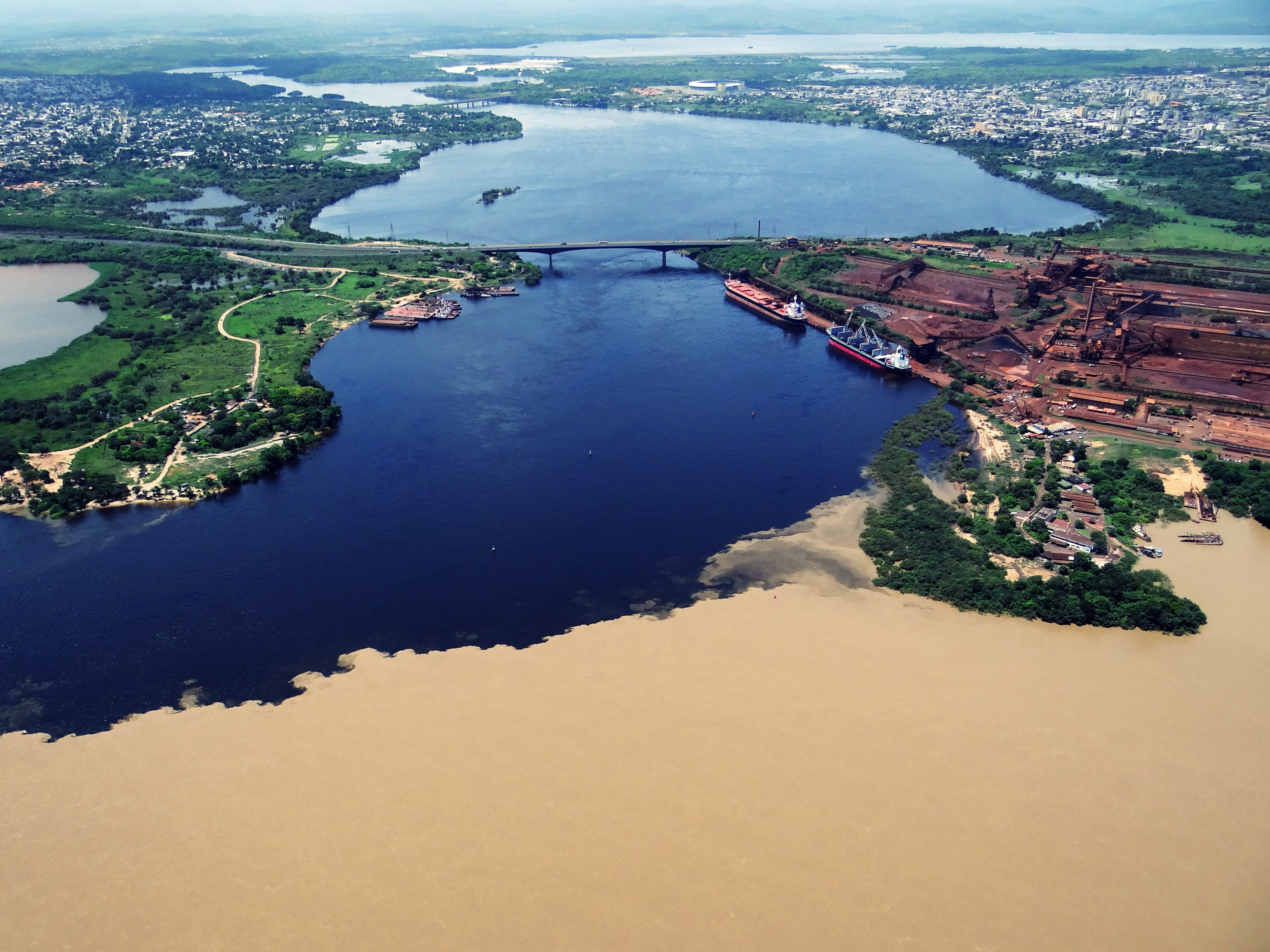 Espectacular escenario de la naturaleza - Fotografía desde Helicóptero